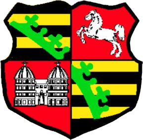 Coat of arms of Amt Neuhaus